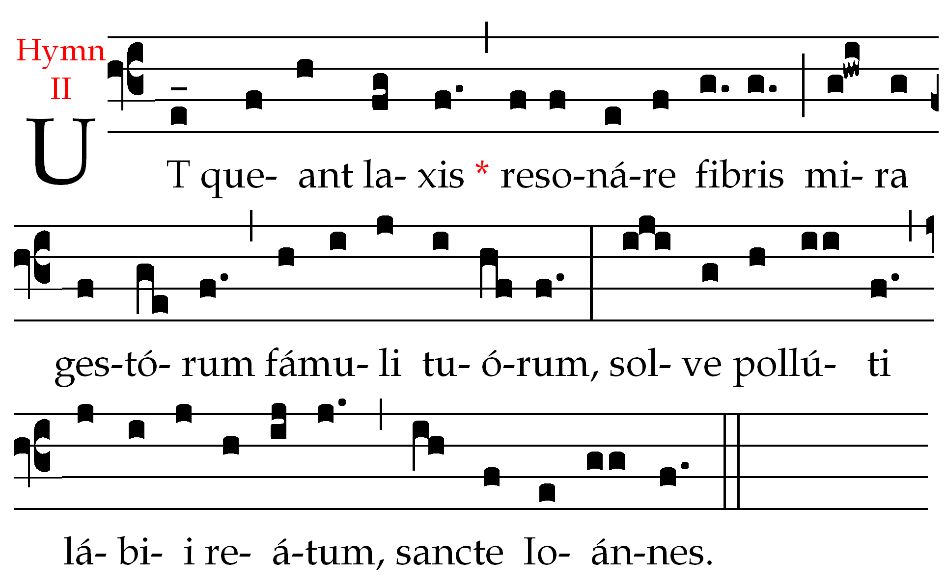 First verse of the hymn Ut queant laxis in Gregorian square notation, according to the Benedictine tradition.